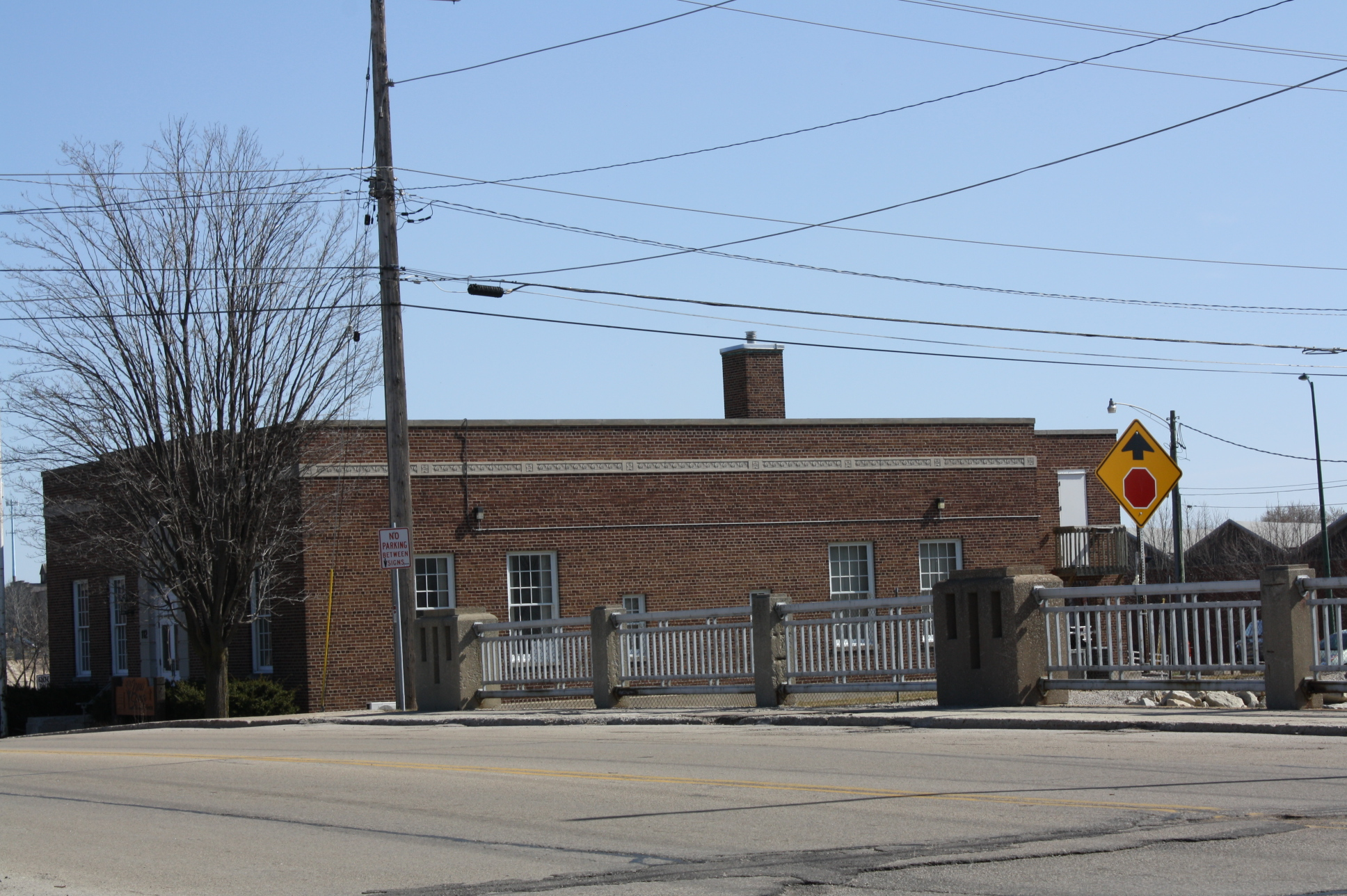 The Former US Post Office in Kaukauna, Wisconsin, listed on the National Register of Historic Places.